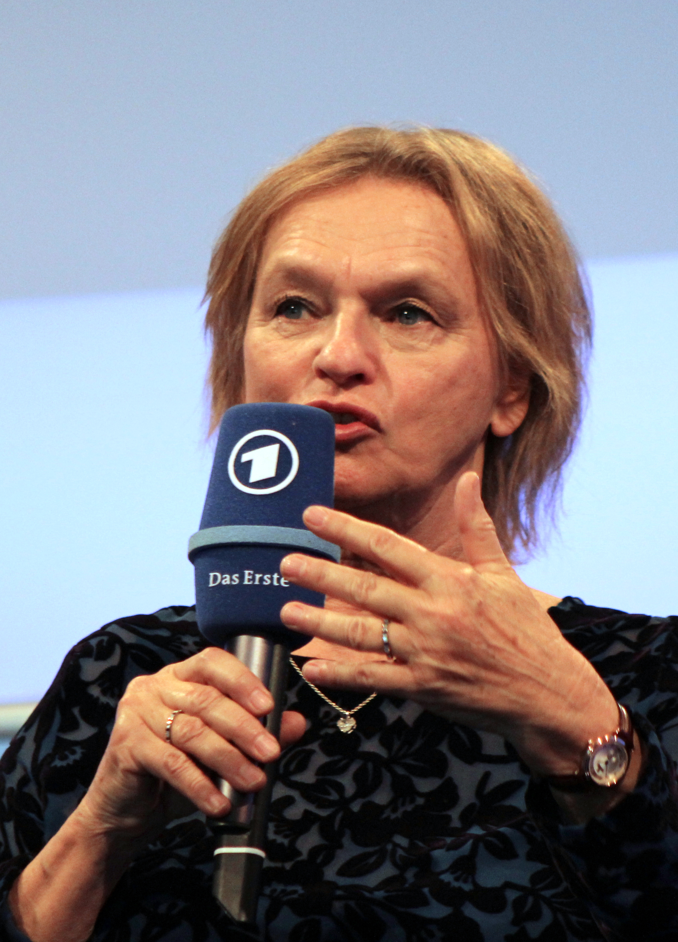 Elke Heidenreich, Frankfurt Book Fair 2012